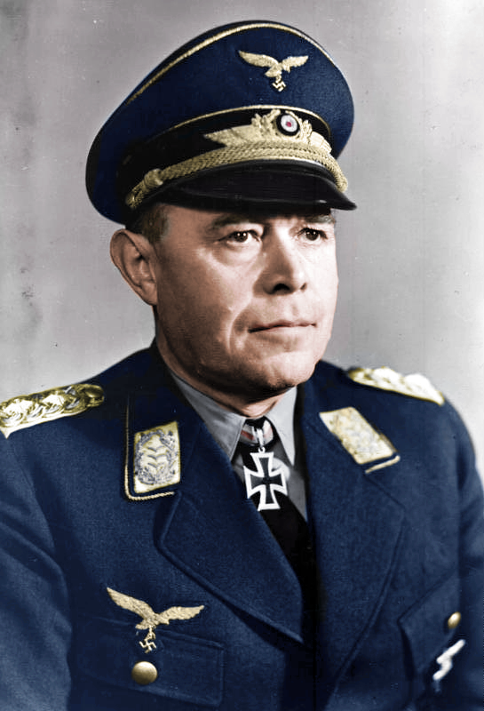 Albert Kesselring, as seen with his Knight's Cross of the Iron Cross. Colorized by user Election1960 from a Bundesarchiv photograph as used previously on this page.